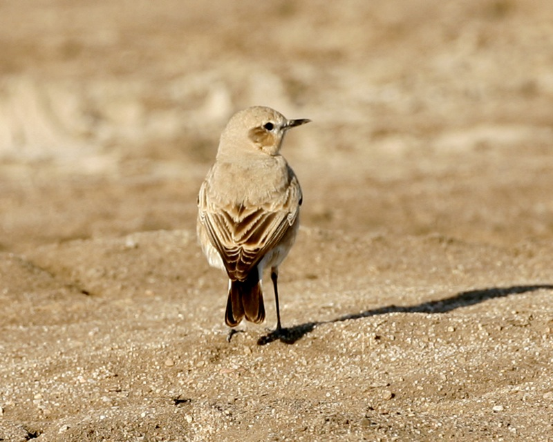 Isabelline Wheatear - male, non-breeding Oenanthe isabellina November 28, 2006 Little Rann of Kutch, Gujerat, India Distribution